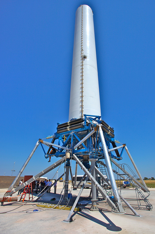 None.